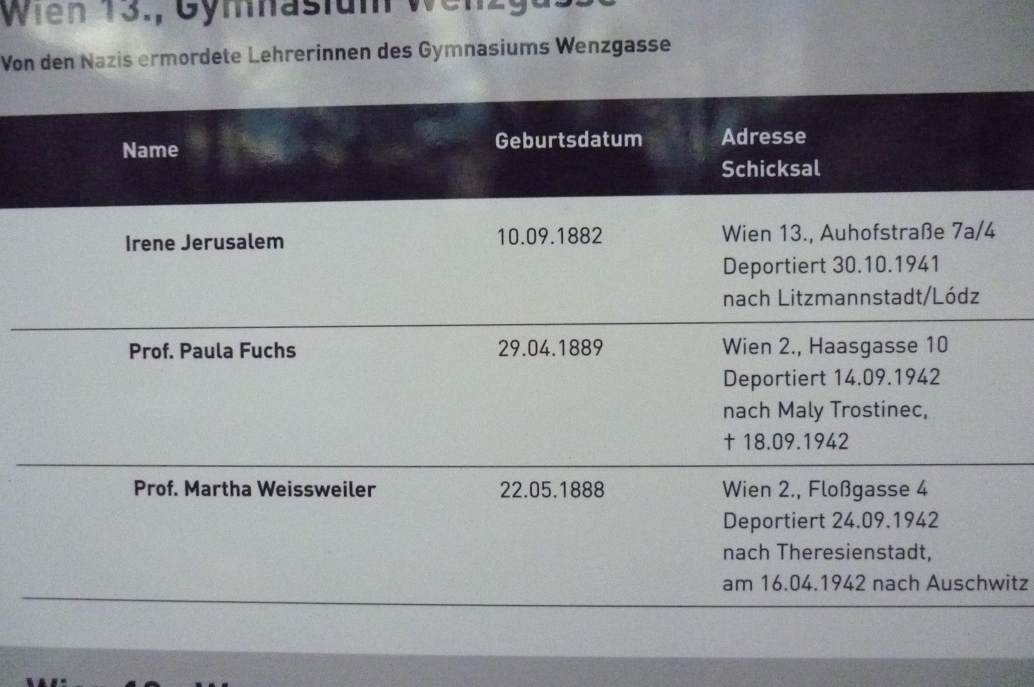 Wenzgasse High School Memorial Sign "Jews in Vienna" detail